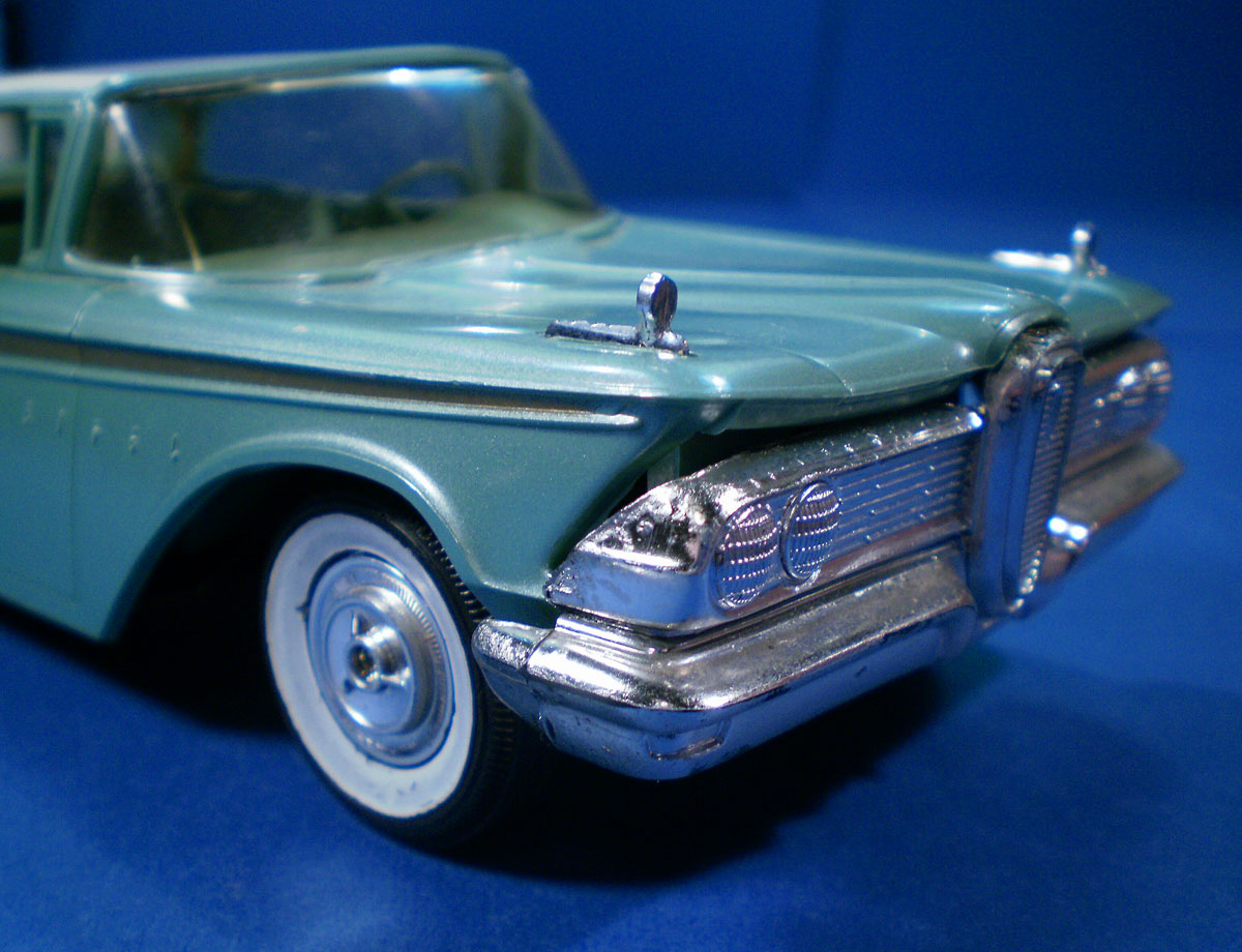 My own view of the warped cellulose acetate of a 1959 AMT Edsel promotional model.